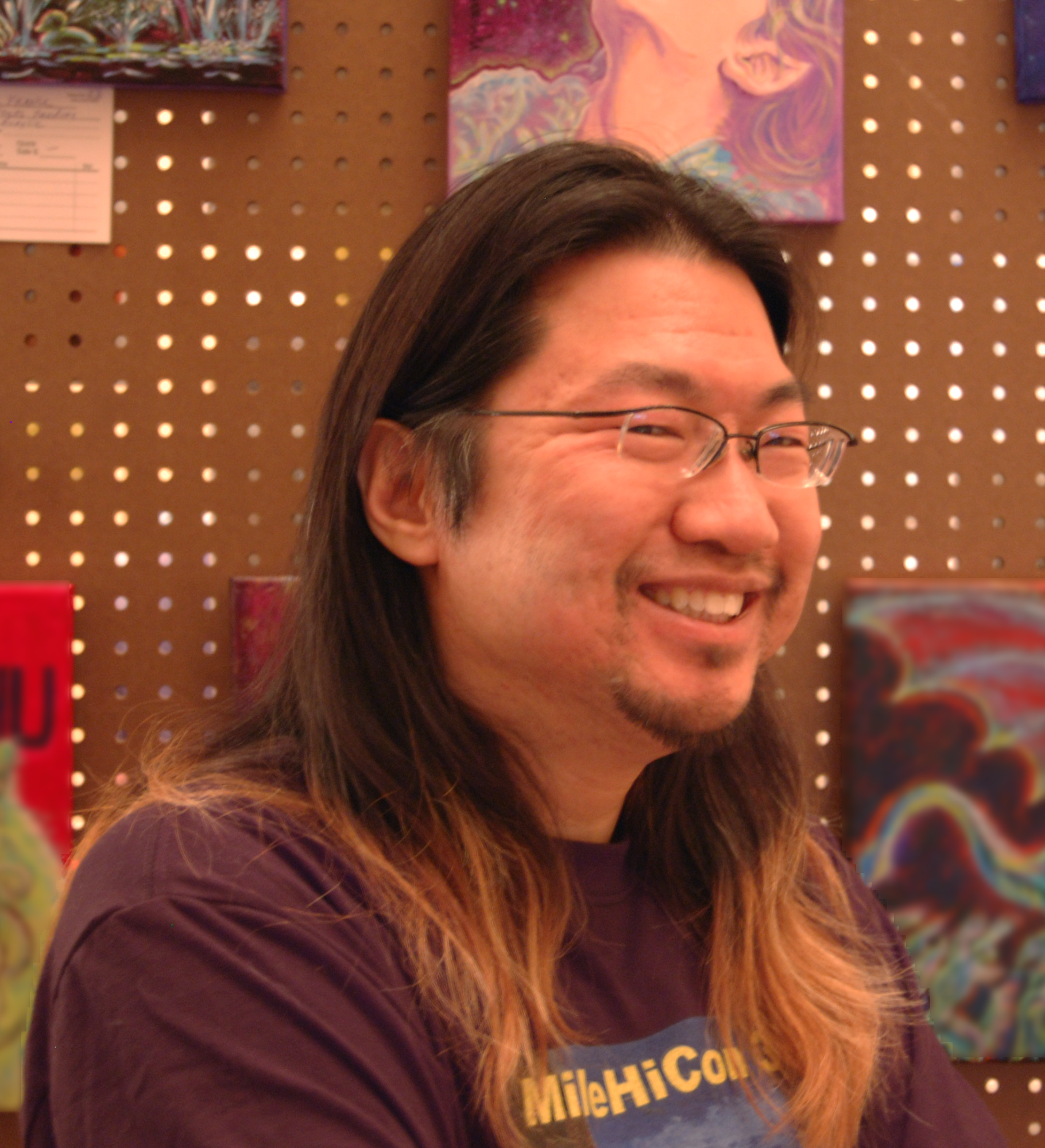 Frank Wu at MileHiCon 39 in Denver, Colorado.